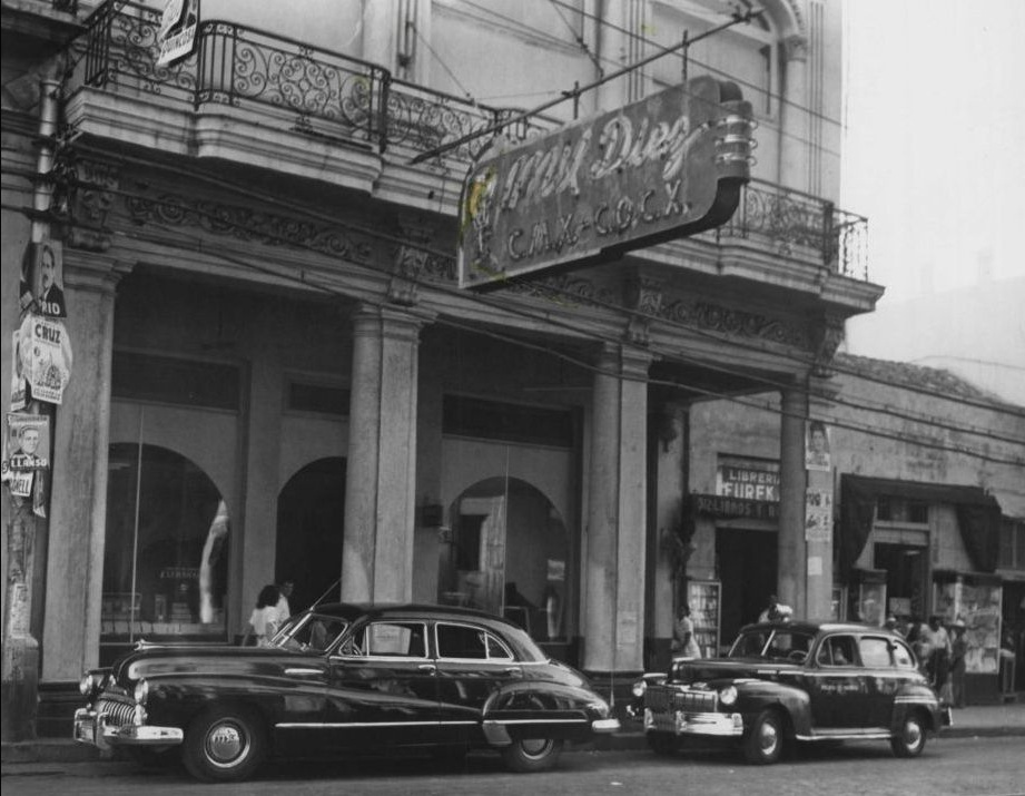 offices of Radio Mil Diez